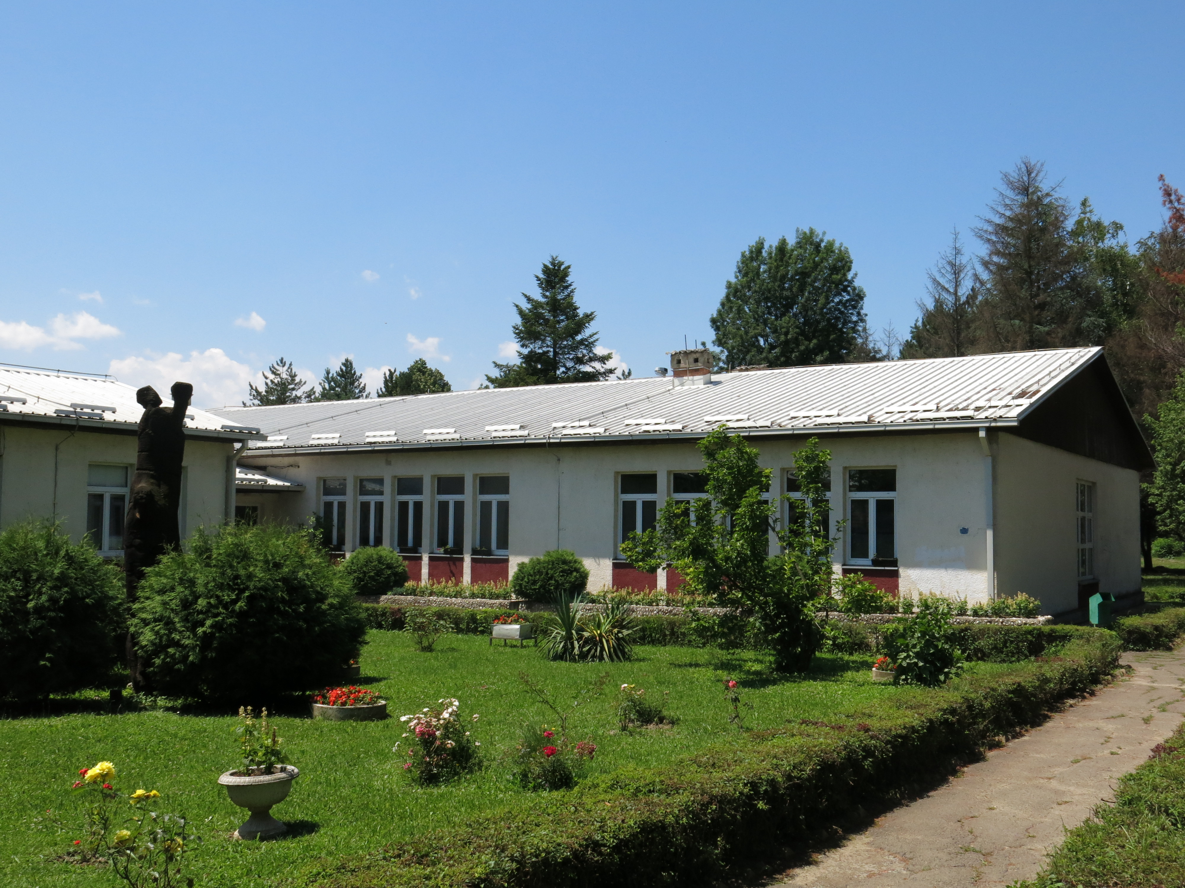 Dudovica, Elementary school Mihailo Mladenović Selja